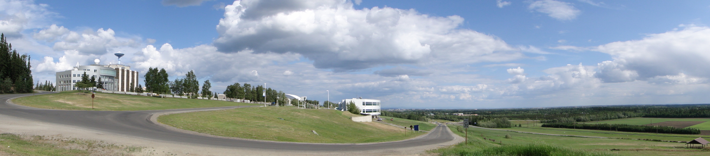 University of Alaska Fairbanks, West Campus Panorama